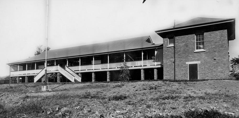 Maternity ward of the Gympie General Hospital, 1935 Two storey maternity wing with verandahs opening out along the wards. Gympie is a city in south-eastern Queensland, situated on the Mary River about 162 kilometres north of Brisbane. Gympie is the centre of an important dairying and agricultural district. In the early days timber was a significant industry.